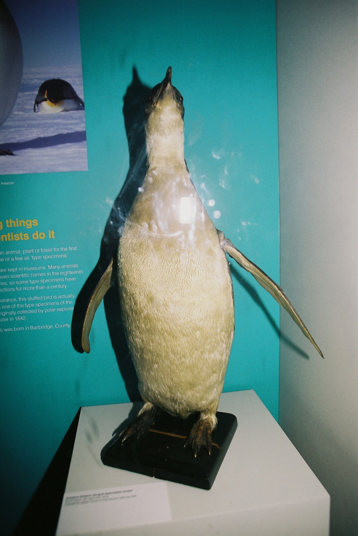 Emperor Penguin Crozier Expedition HMS Terror. Putative Paratype